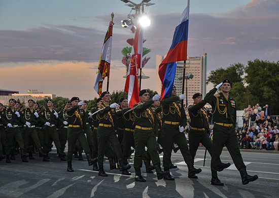 Командующий войсками ЗВО проверил готовность военнослужащих к параду в Минске, посвящённому Дню независимости Белоруссии